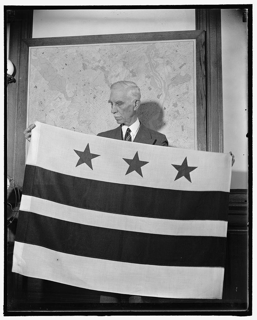 Title: At last the District of Columbia is to have it's own official flag. George Washington's family shield of red and white--two red bars & 3 red stars on a white background-- is the design just approved by the flag commission created by Congress. D.C. Commissioner, Melvin Hazen, who chose the design, is pictured with the new banner, 10/17/38 Abstract/medium: 1 negative : glass ; 4 x 5 in. or smaller